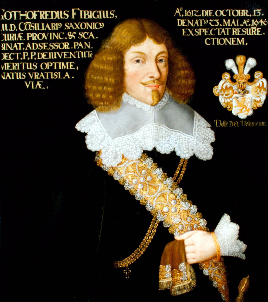 Gottfried Fibig also: Fibigus (1612-1646) german Jurist